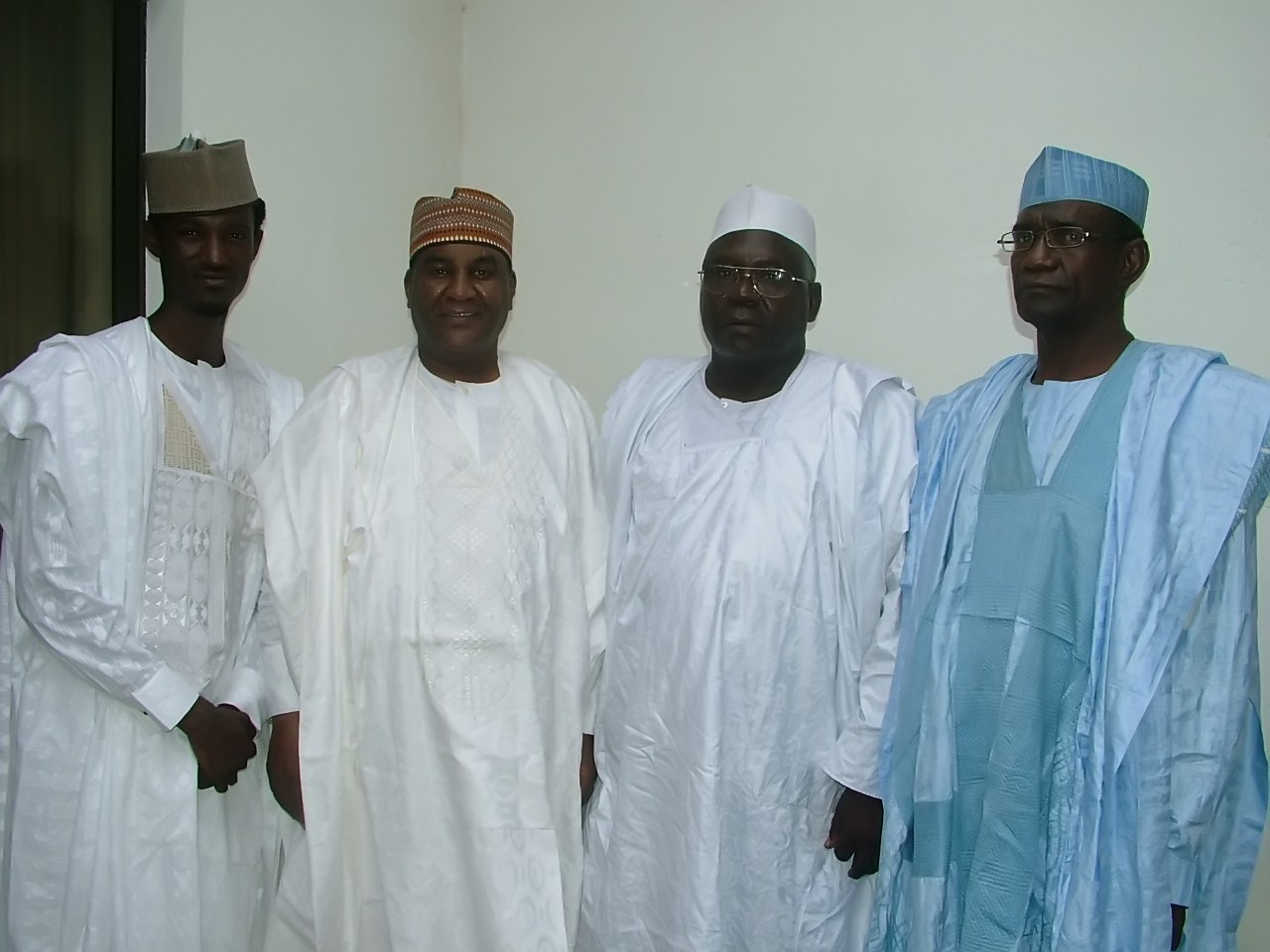 From Left to Right: Mahmoud Bukar Maina, Late Senator Usman Albishir, Alh Yusuf Yunusa Mai hajja, and Alh Bukar Maina Nguru. Photo taken in July 2010